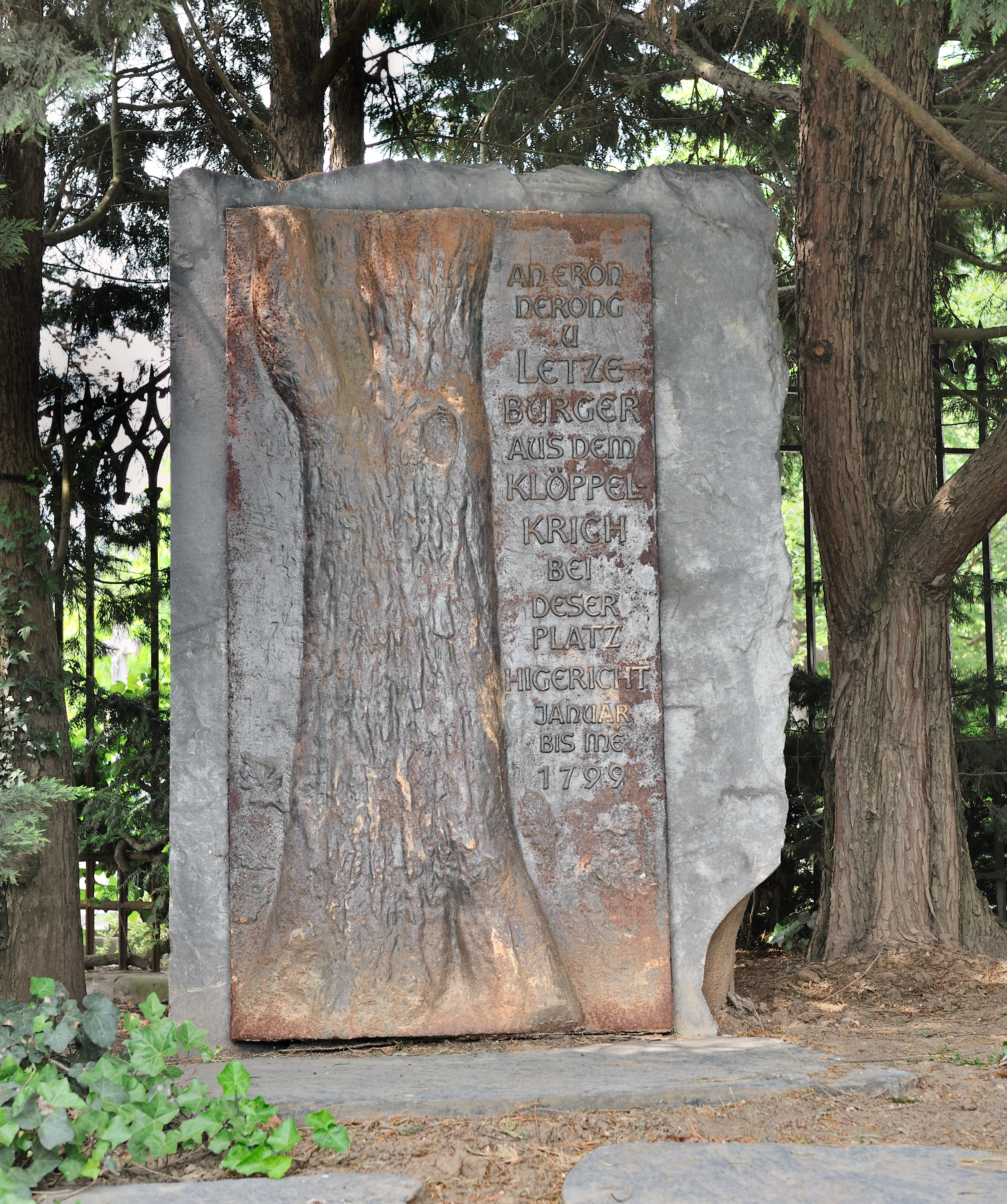 Luxembourg City, Limpertsberg: monument commemorating the rebels of the Peasants' War of 1798 who were executed at this very place in 1799.